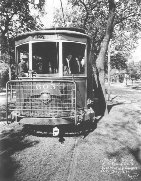 New Orleans: Streetcar on Esplanade Avenue between St. Claude and North Rampart, testing for clearances (West End route sign is erroneous). Car is one of the Palace cars, built 1901-03 by St. Louis Car Co., originally numbered 01-045, 058-0137. All but 075 (scrapped after a collision) renumbered 600-723 in 1918.